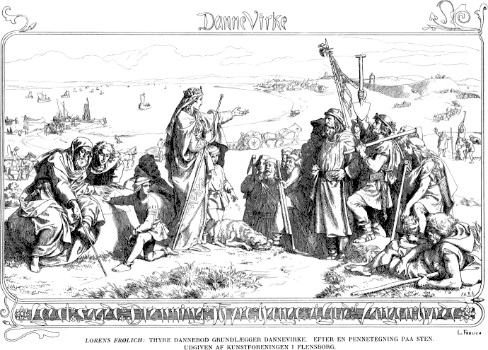 Thyra Danebod by Lorenz Frølich